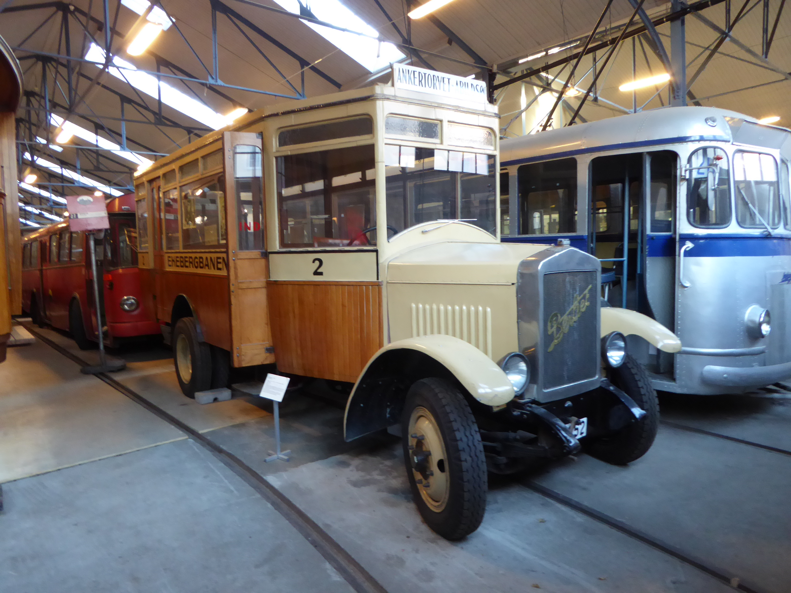 Bus EB 2 of Ekebergbanen from 1924 at Sporveismuseet in Oslo. The bus played the titel role in the Norwegian movie Bussen from 1961.